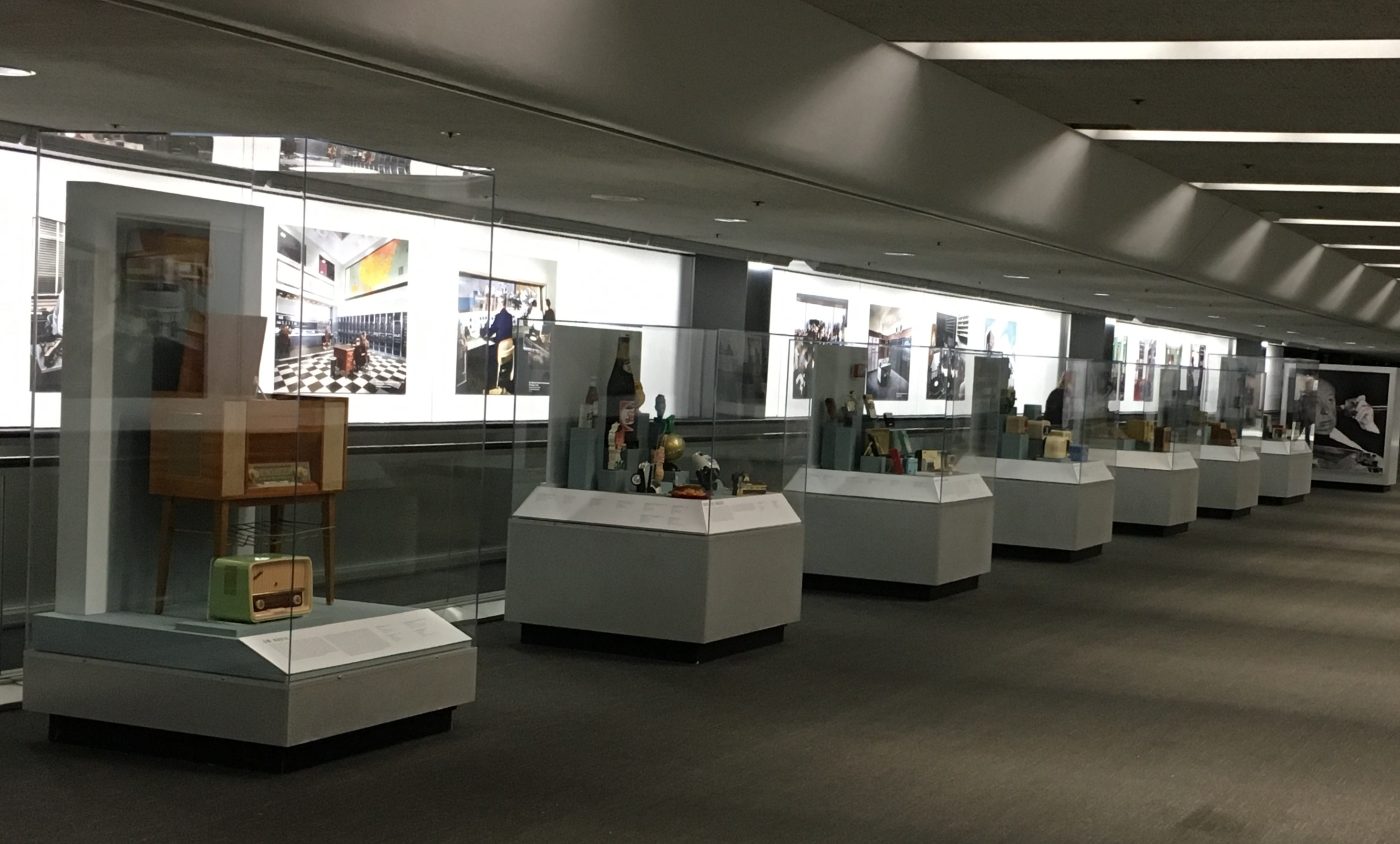 Photograph of the "On The Radio" exhibition by the SFO Museum in Terminal 3 of San Francisco International Airport on 2018-10-12